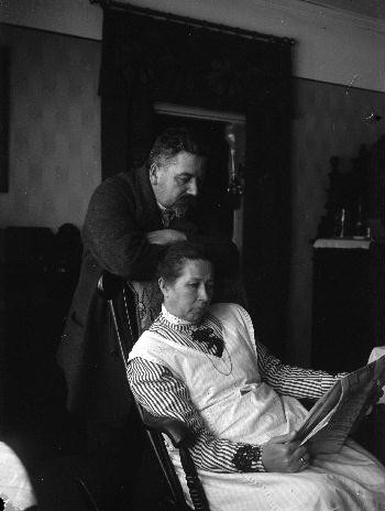 Photograph of the Finnish architech Berndt Blom (1868–1932) with his wife Aina.